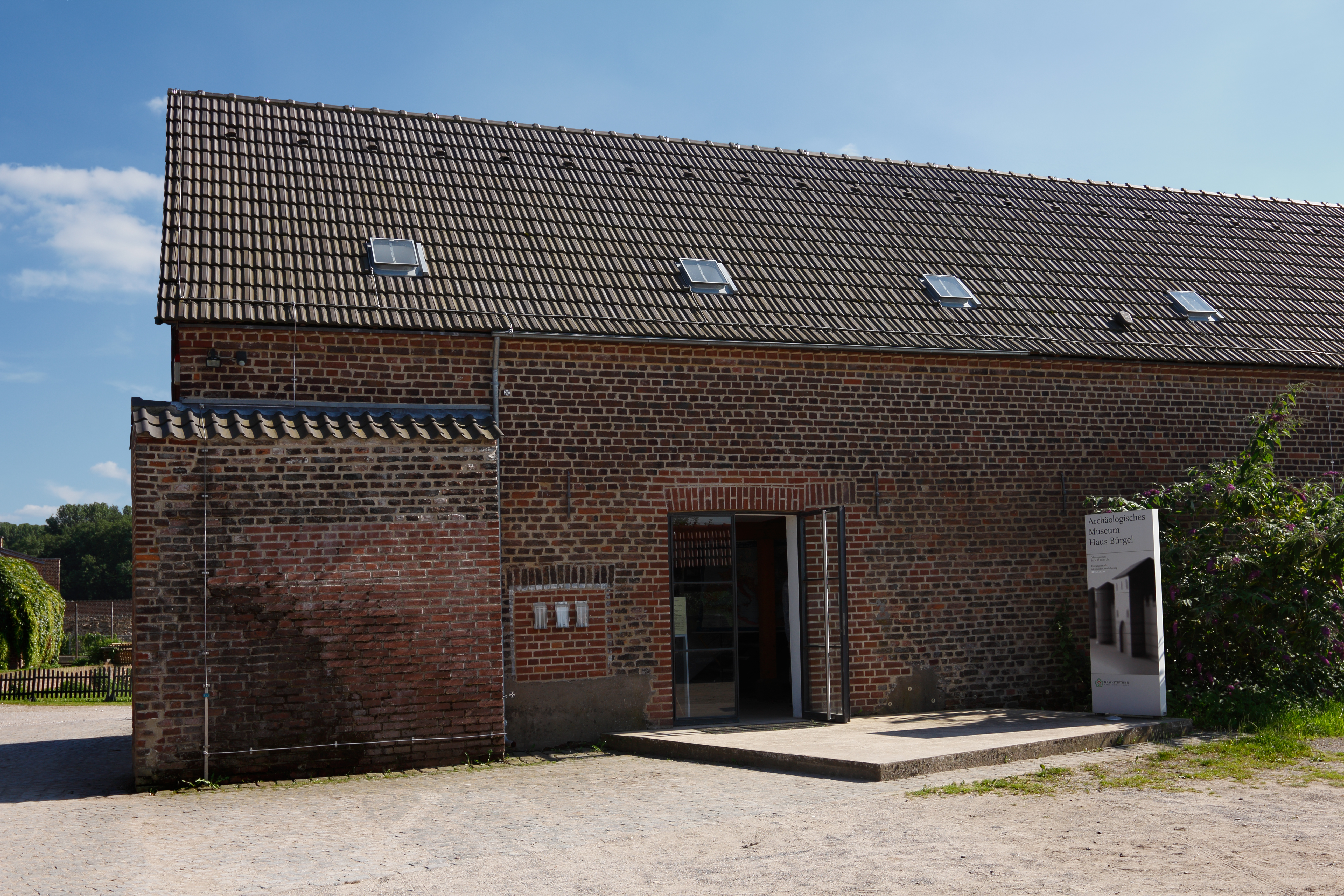 Archaeological Museum Haus Bürgel in Monheim am Rhein